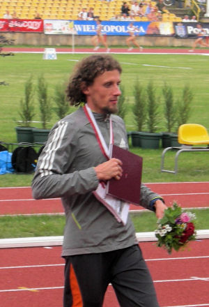 athlete from Poland during Polish Championship in athletics 2007 - Poznań